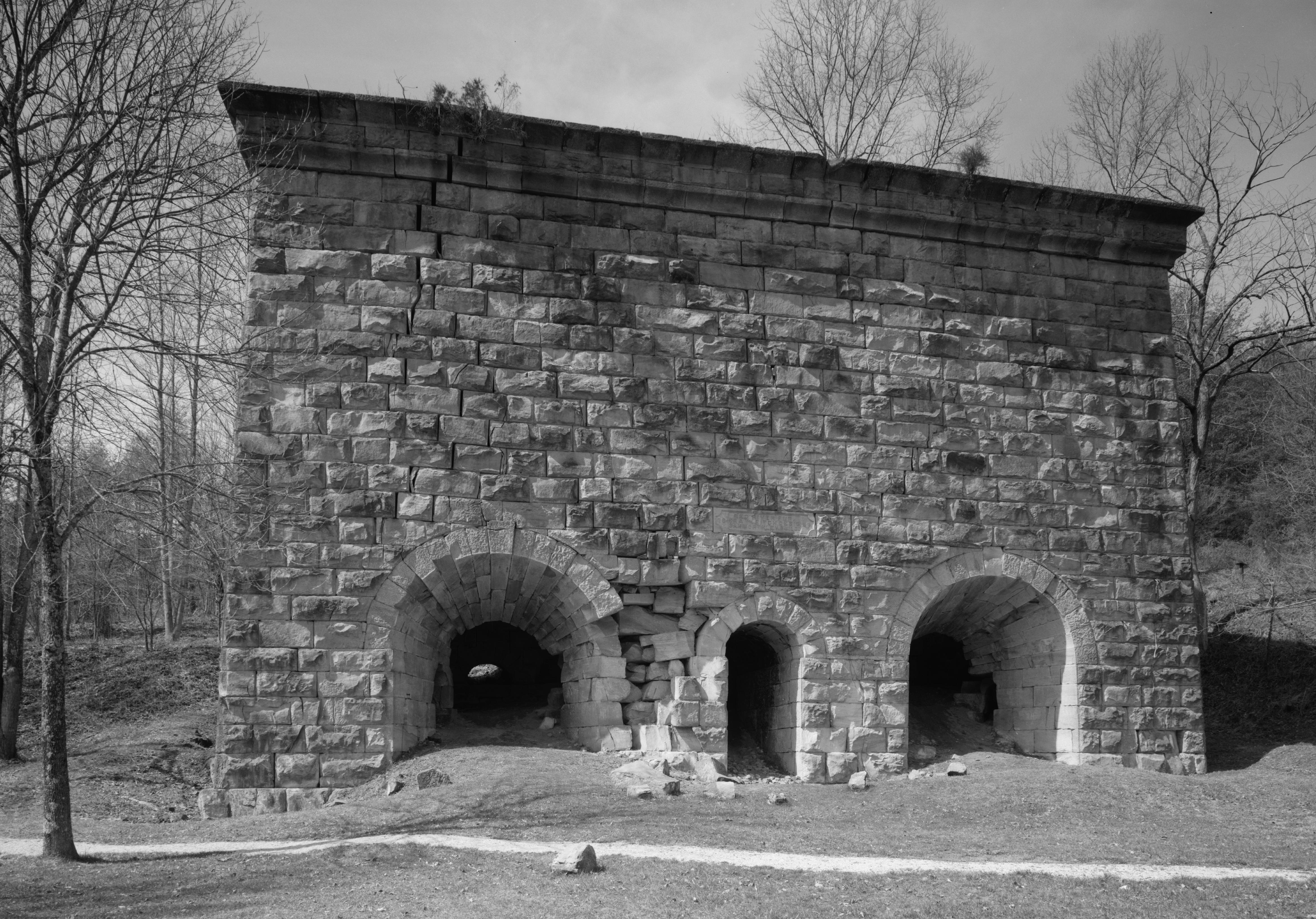 Front of the Red River Iron Furnace, located off Kentucky Route 975 near Fitchburg in the Daniel Boone National Forest of Estill County, Kentucky, United States. Built in 1869, it is listed on the National Register of Historic Places.